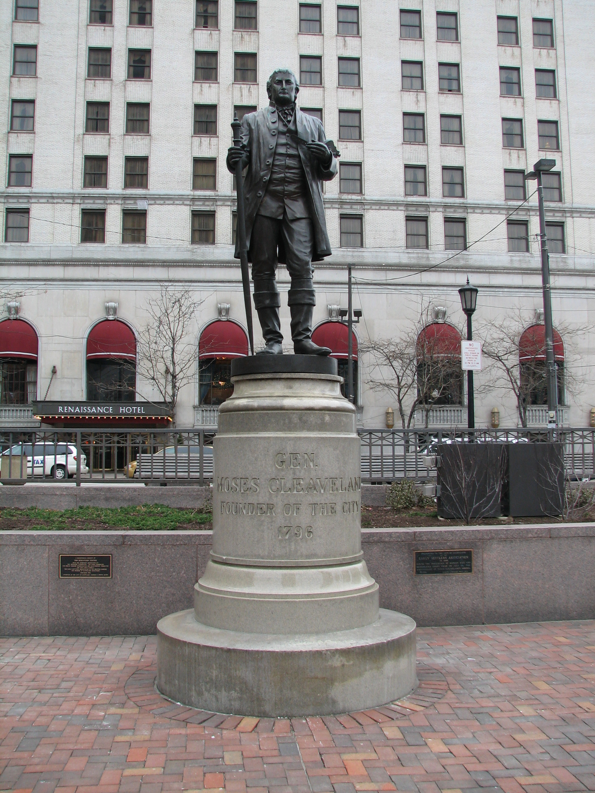 Moses Cleaveland statue in downtown Cleveland's Public Square. Erected 1888.Moses Cleaveland